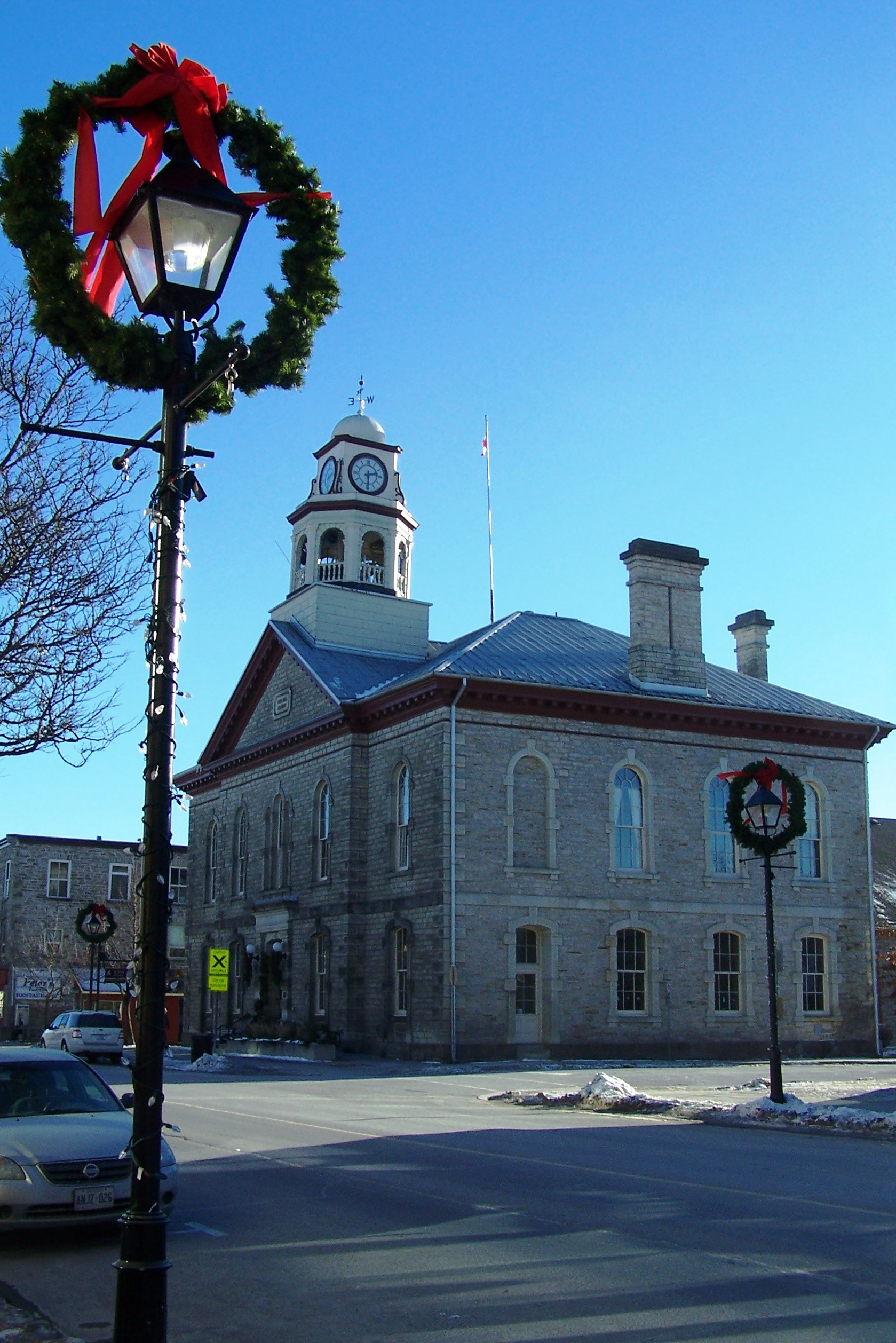 Perth Town Hall